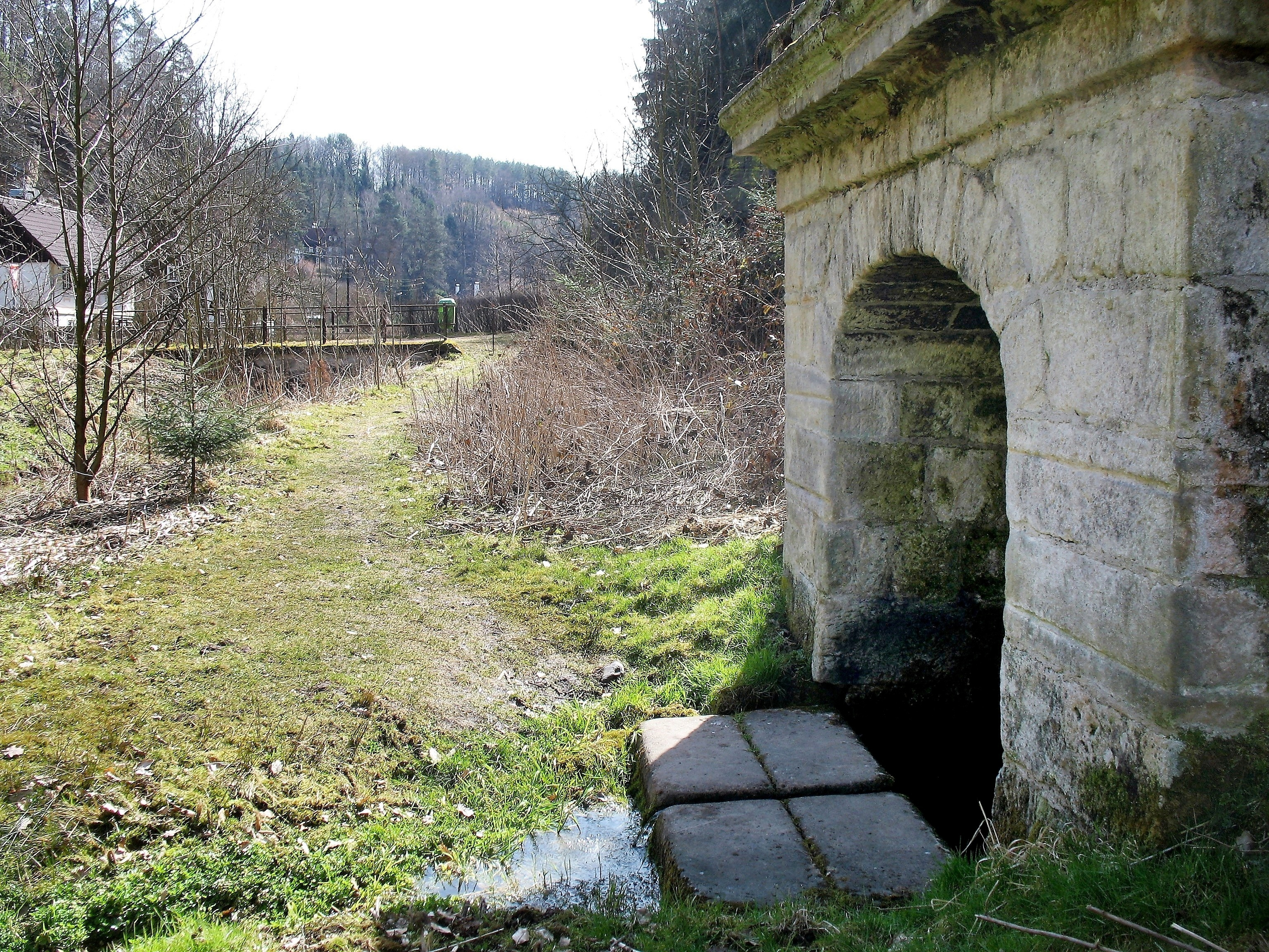 Water well Knížecí studánka, Pavlovice, Česká Lípa District, Northern Bohemia